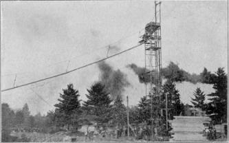 The Twin Falls Power Dam near Iron Mountain, Michigan, under construction in 1911.